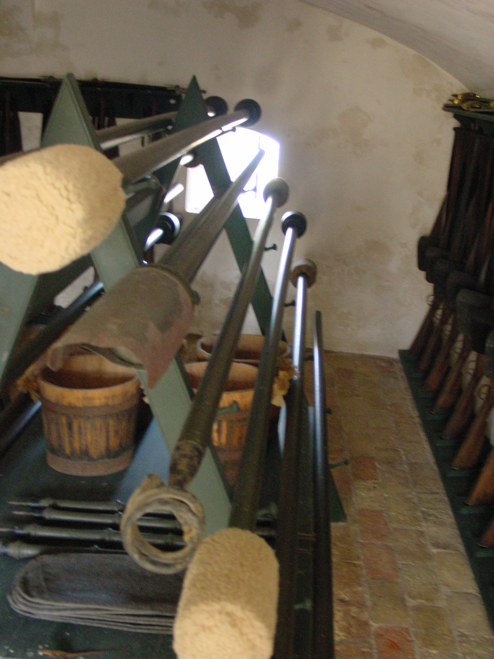 Ramrods in the armory, Fort Christiansvaern, Christiansted, St. Croix, USVI